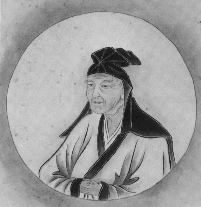 Portrait of Razan Hayashi,paper scroll